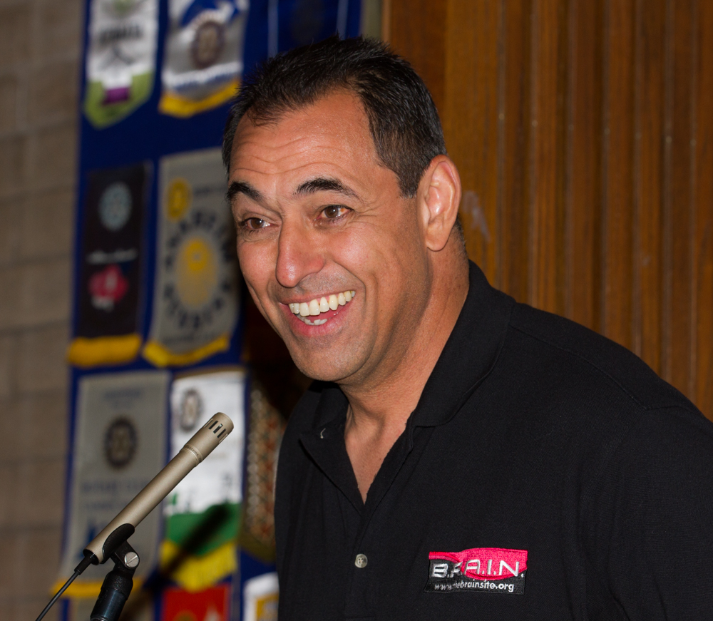 Visger at the Brain Rehabilitation and Foundation Network on November 8, 2013